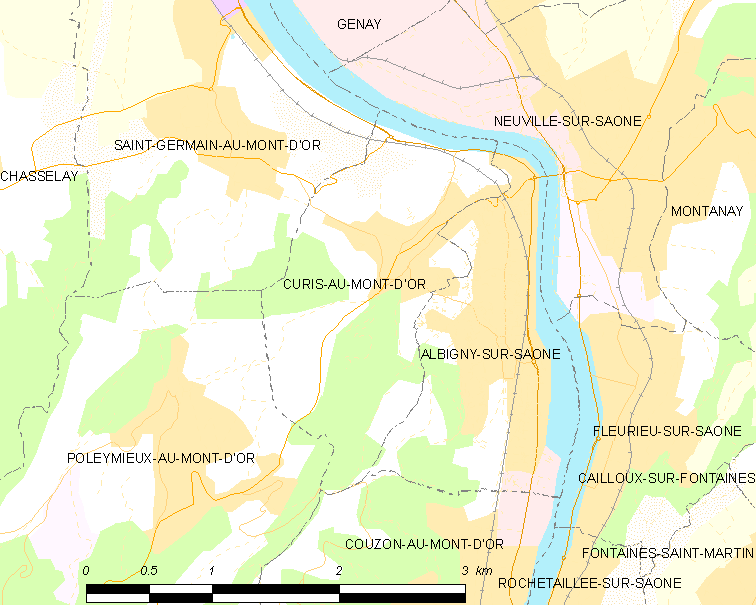 Map of French municipality